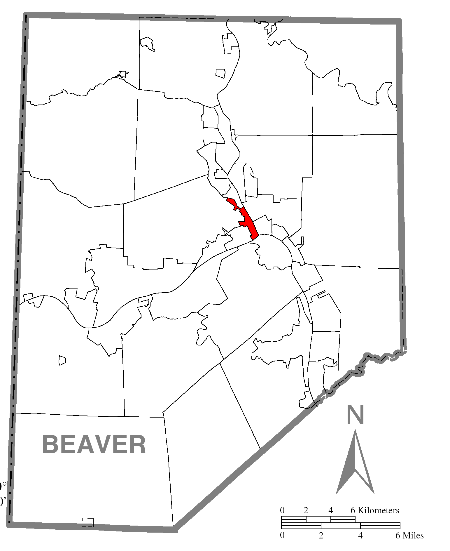 A map of Beaver County showing Bridgewater, Pennsylvania (alternate) highlighted on the map.